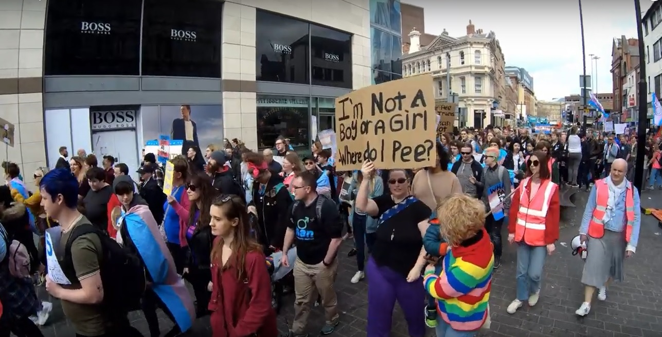 Liverpool Trans Pride march, Sunday 31st March 2019, on Whitechapel